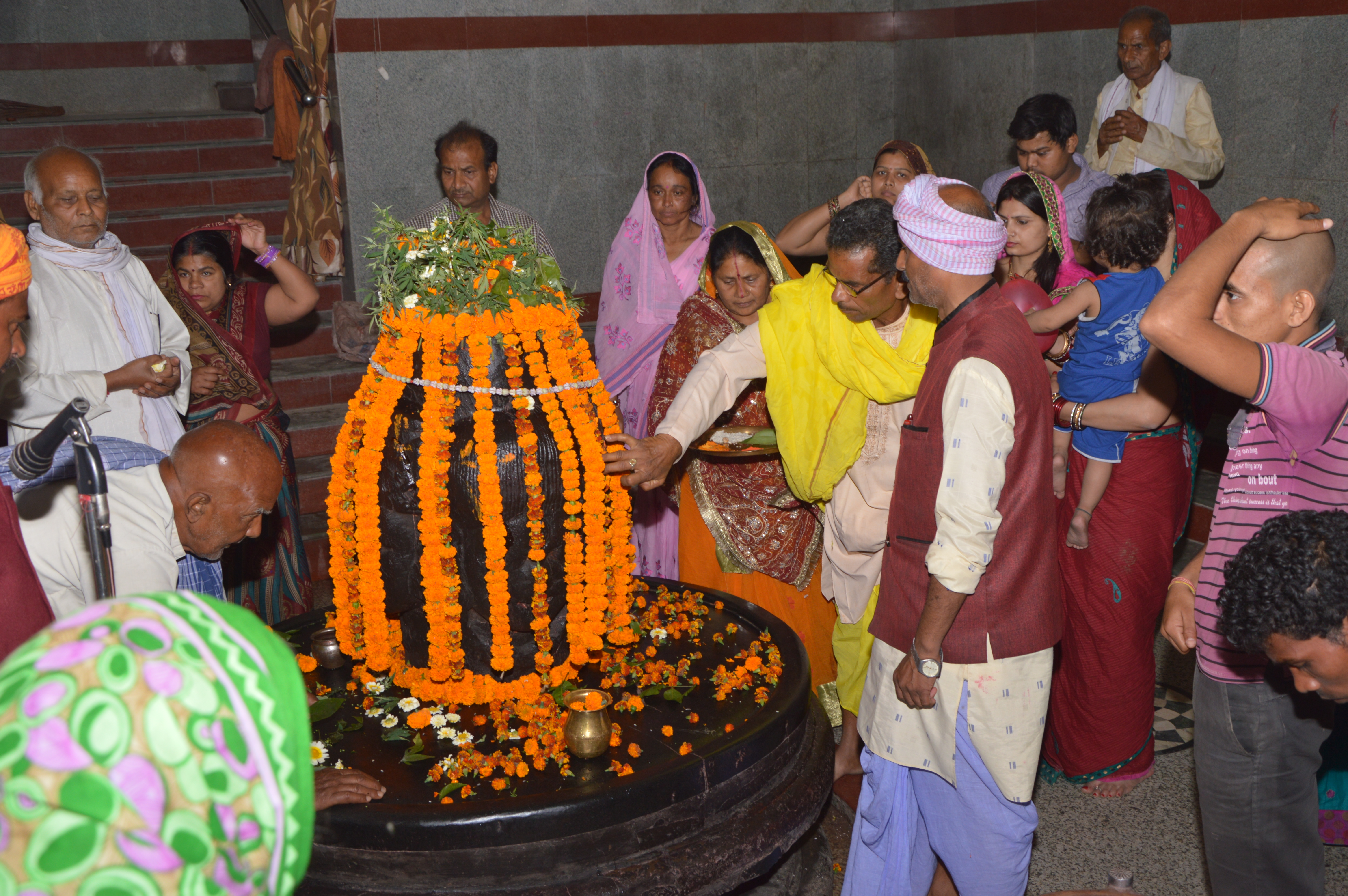 ChaumukiMahadev Mandir Shivling at Vaishali